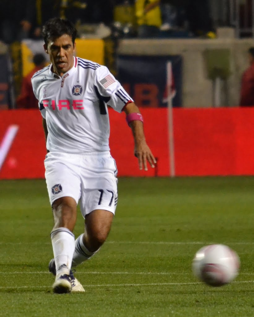 Pavel Pardo with the Chicago Fire